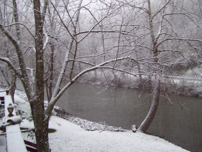 October snow in Rocky Gap, Virginia